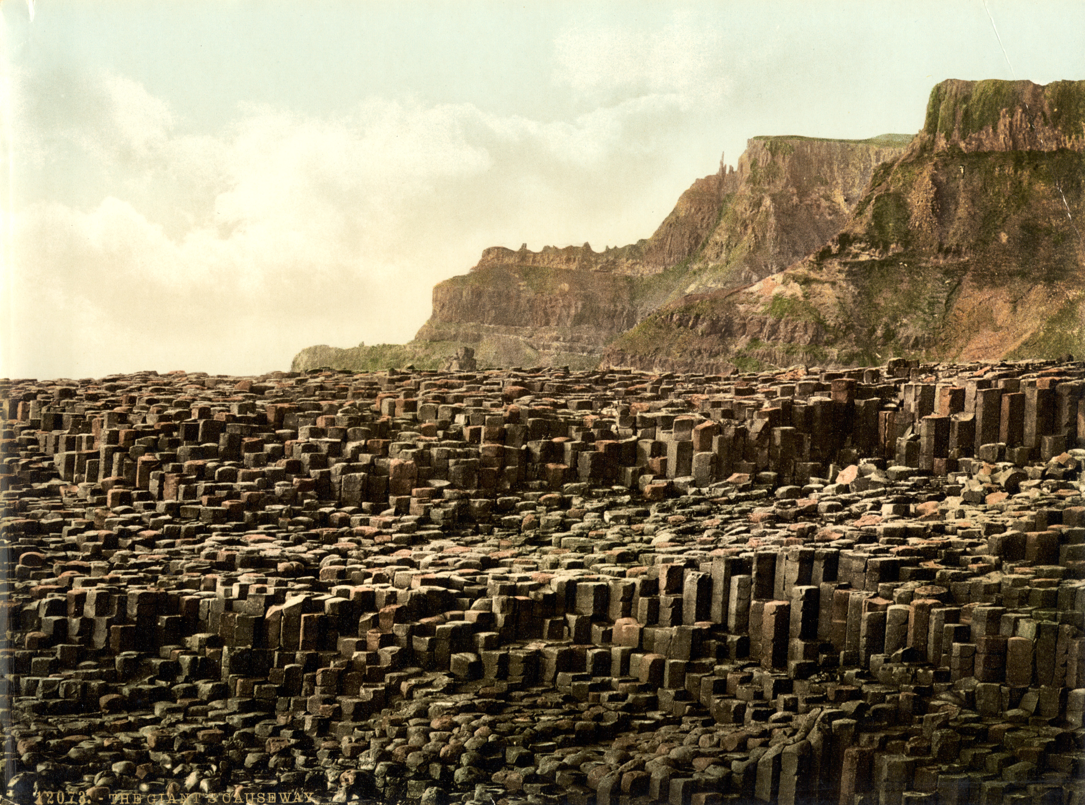 Giant's Causeway, County Antrim, Northern Ireland. 1 photomechanical print : photochrom, color.